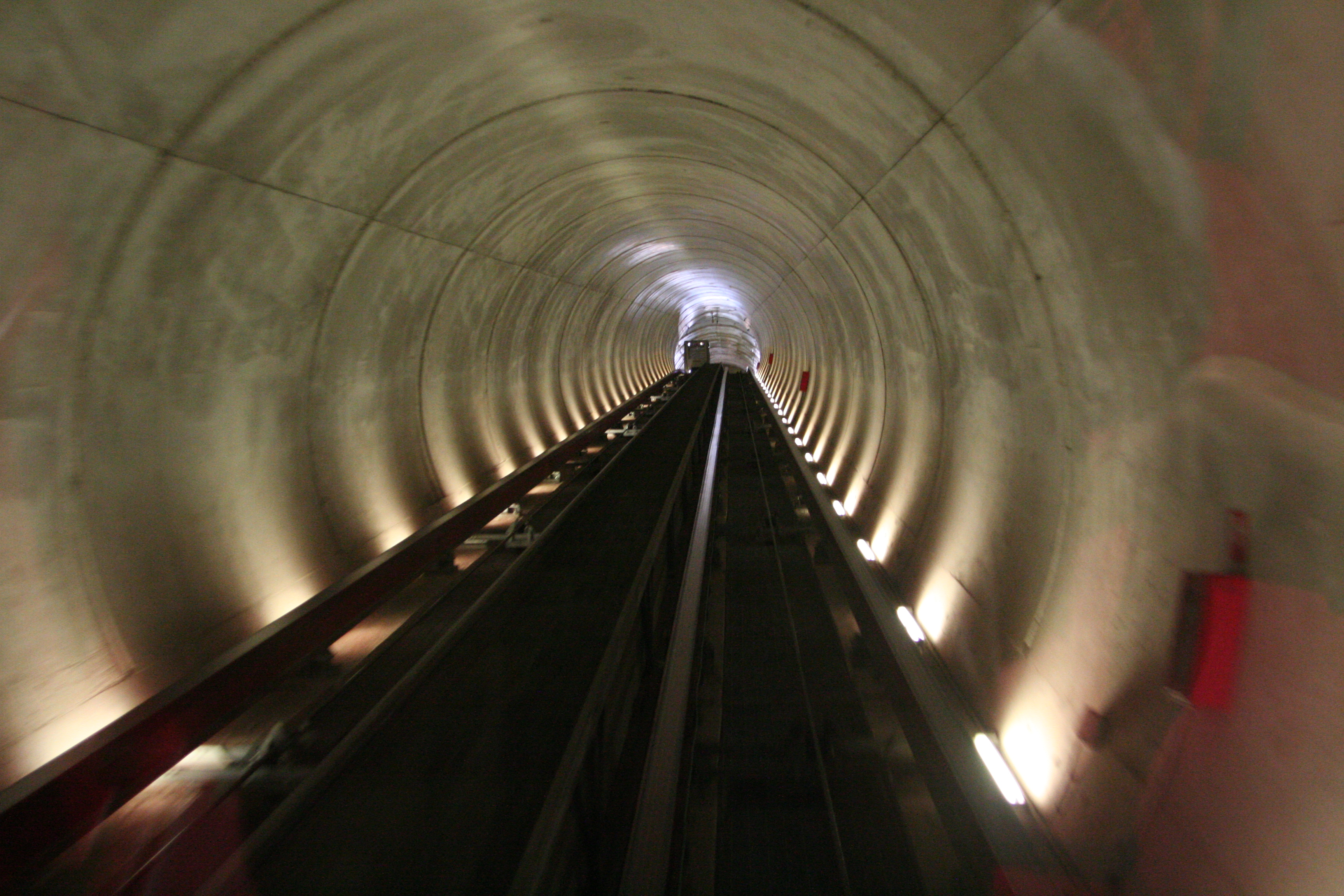 Perugia, Province of Perugia, Italy.